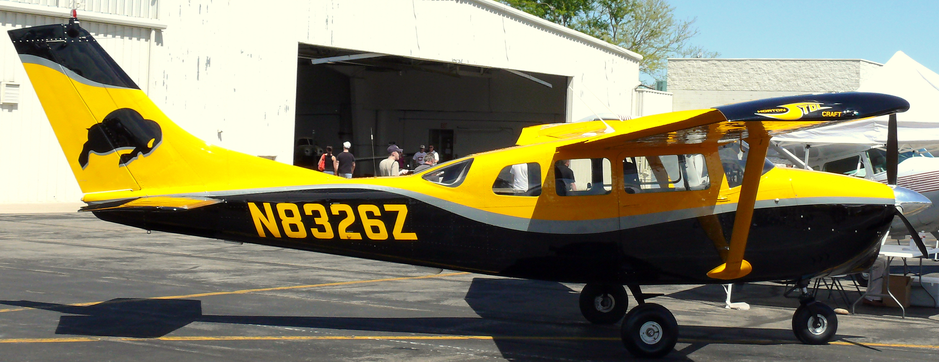 Cessna 205A at JeffCo Airport.